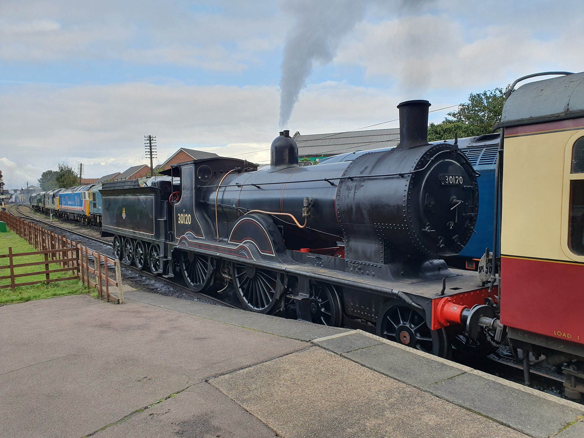 Guest locomotive LSWR T9 30120 at Loughborough Central during the Great Central Railway's Autumn Steam Gala on 4 October 2019.